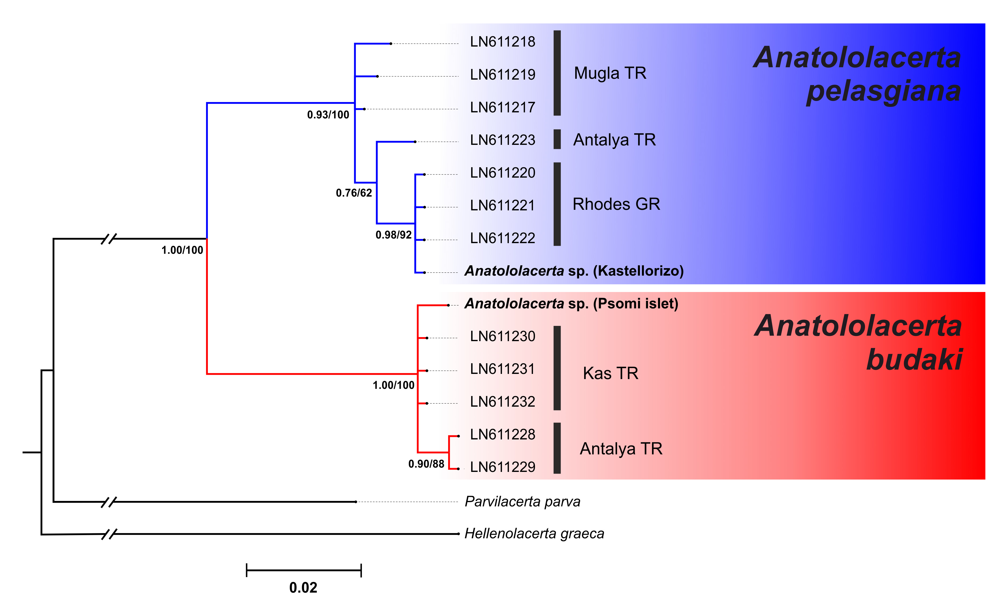 Kalaentzis, K., Strachinis, I., Katsiyiannis, P., Oefinger, P., & Kazilas, C. (2018). New records and an updated list of the herpetofauna of Kastellorizo and the adjacent islet Psomi (Dodecanese, Greece). Herpetology Notes, 11, 1009-1019.